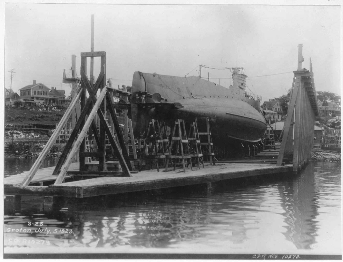 Stern view of the S-25 (SS-130) on a temporary wooden platform at Groton, CT, 5 July 1923.